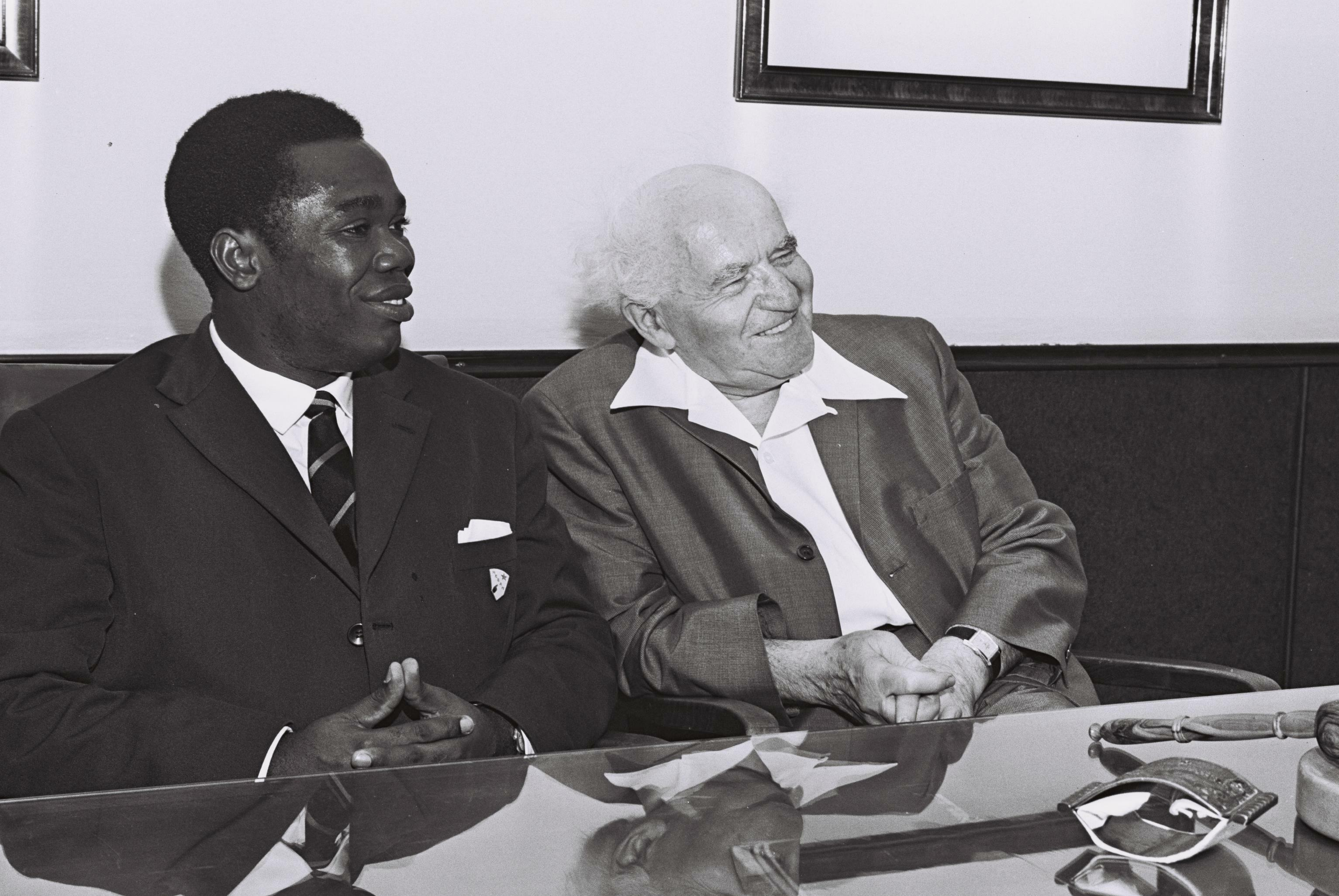 PRESIDENT DAVID DACKO, CENTRAL AFRICAN REPUBLIC, WITH PRIME MIN. DAVID BEN GURION (L) AT HIS OFFICE IN JERUSALEM.